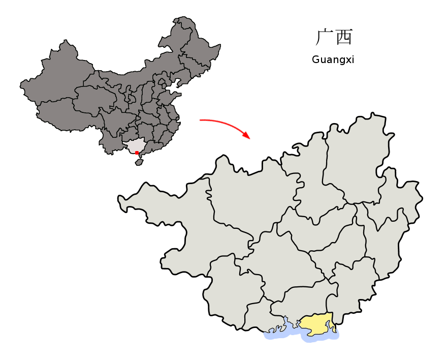 Location of Beihai Prefecture (yellow) within Guangxi Autonomous Region of China Map drawn in november 2007 using various sources, mainly : Guangxi Autonomous Region administrative regions GIS data: 1:1M, County level, 1990 Guangxi Counties map from